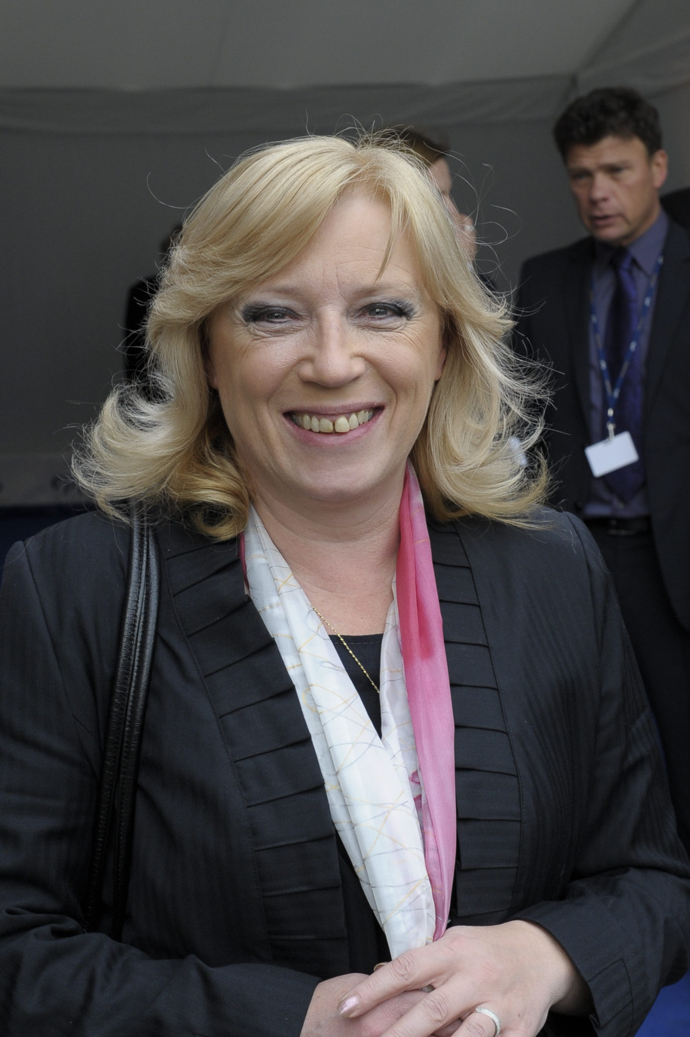 EPP Summit October 2010